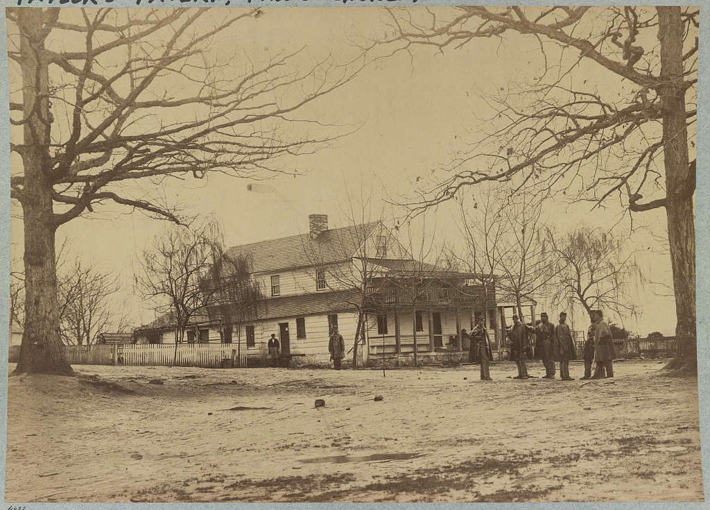 Summary: Photograph shows soldiers in uniform standing outside the tavern.